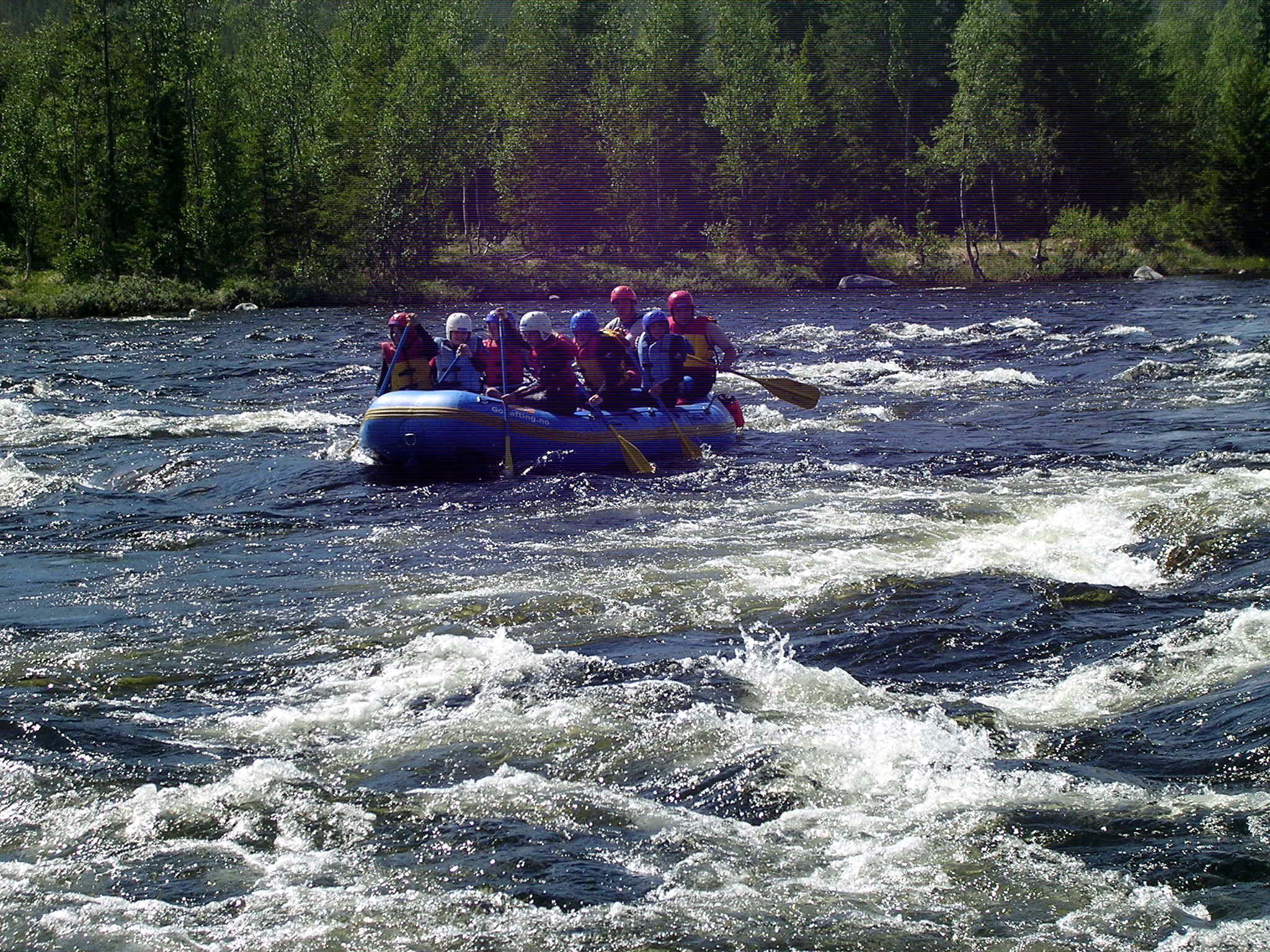 Rafting on the river Trysilelva in Norway.